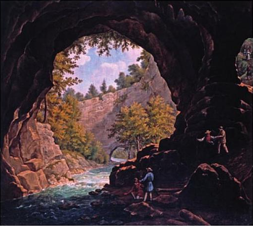 View of the Great Natural Bridge from Weaver's Cave. (NGS 181)label QS:Len,"View of the Great Natural Bridge from Weaver's Cave. (NGS 181)" label QS:Lsl,"Pogled na Veliki naravni most iz Tkalca jame. (NGS 181)"